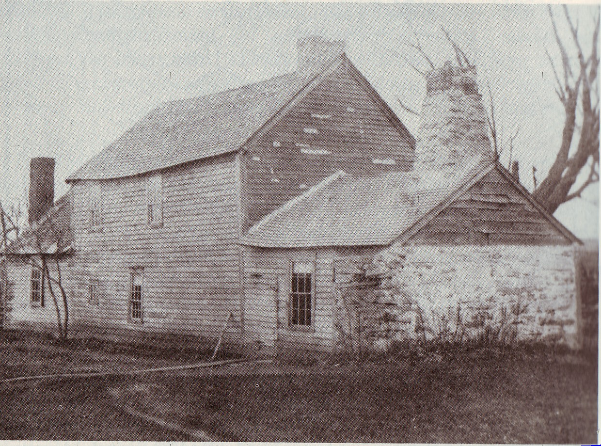 This is a turn of the 20th century picture of the mowry house in North Smithfield, RI from the Rhode Island Historical Society Collections.